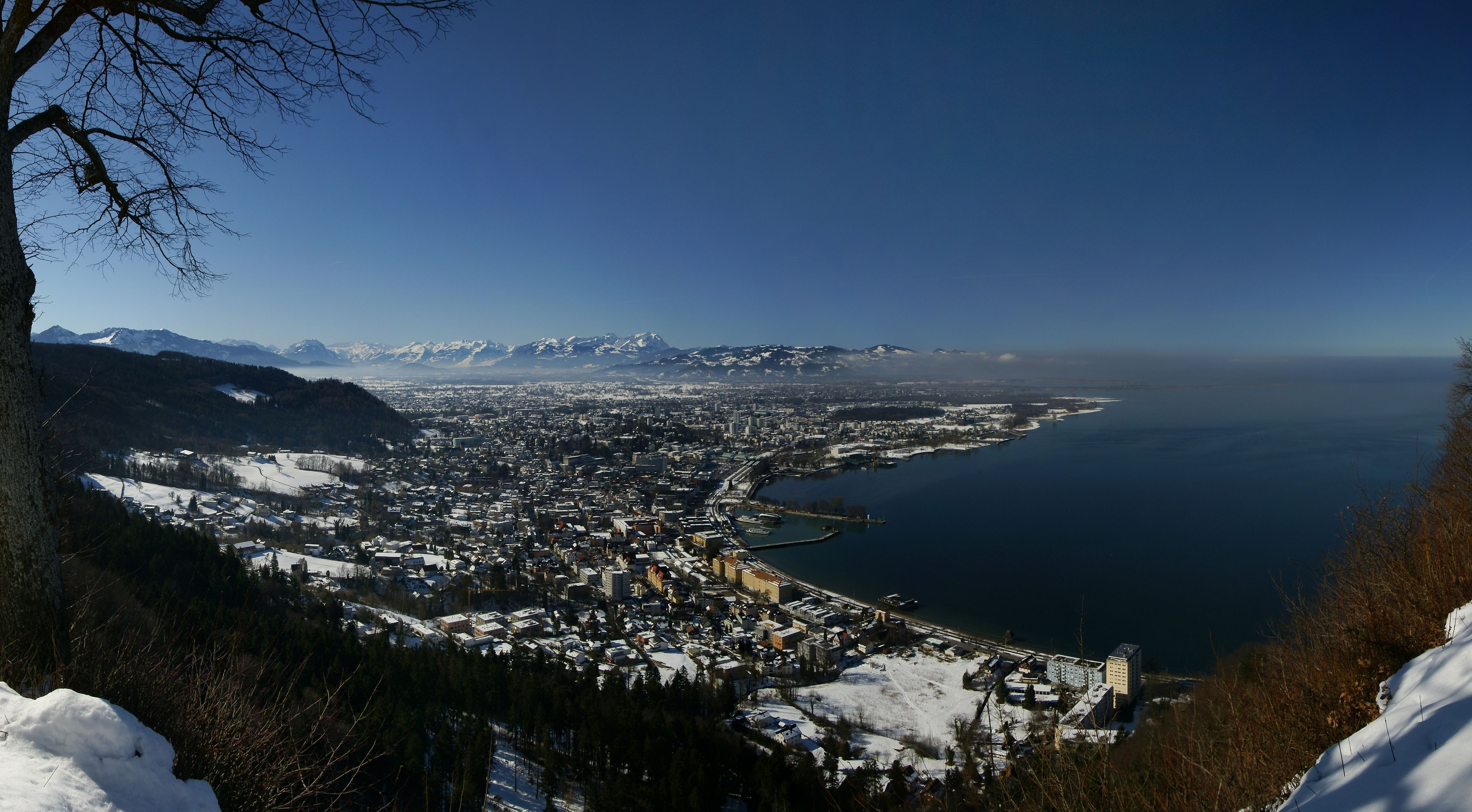 Panorama from multiple images of Haggen to Bregenz on Lake Constance.